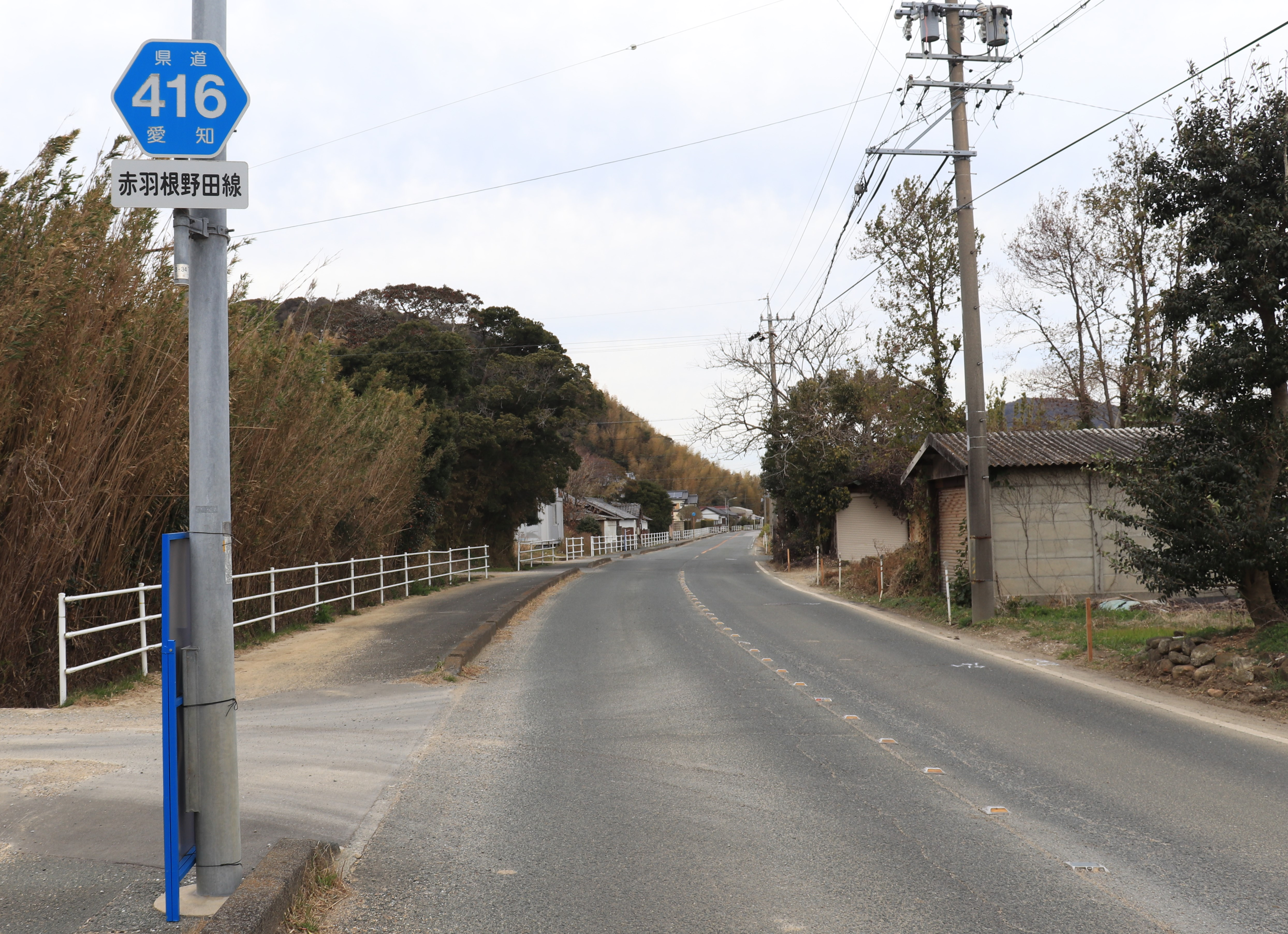 Aichi Prefectural Road Route 416 in Noda-cho, Tahara, Aichi Prefecture, Japan.